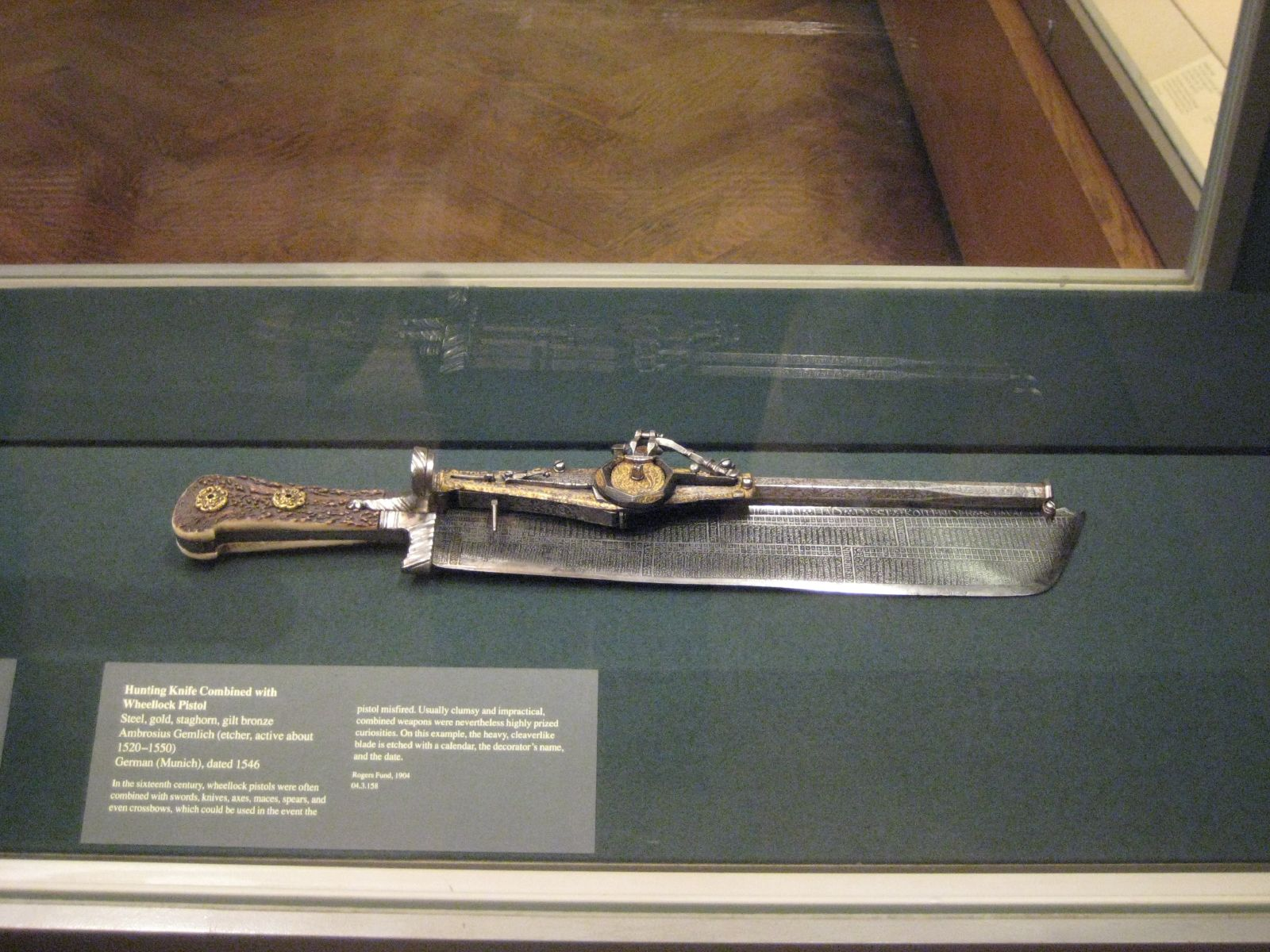 Hunting Knife Combined with Wheellock Pistol. Ambrosius Gemlich (etcher). German (Munich), 1546. This knife is on display in New York at the Metropolitan Museum of Art.